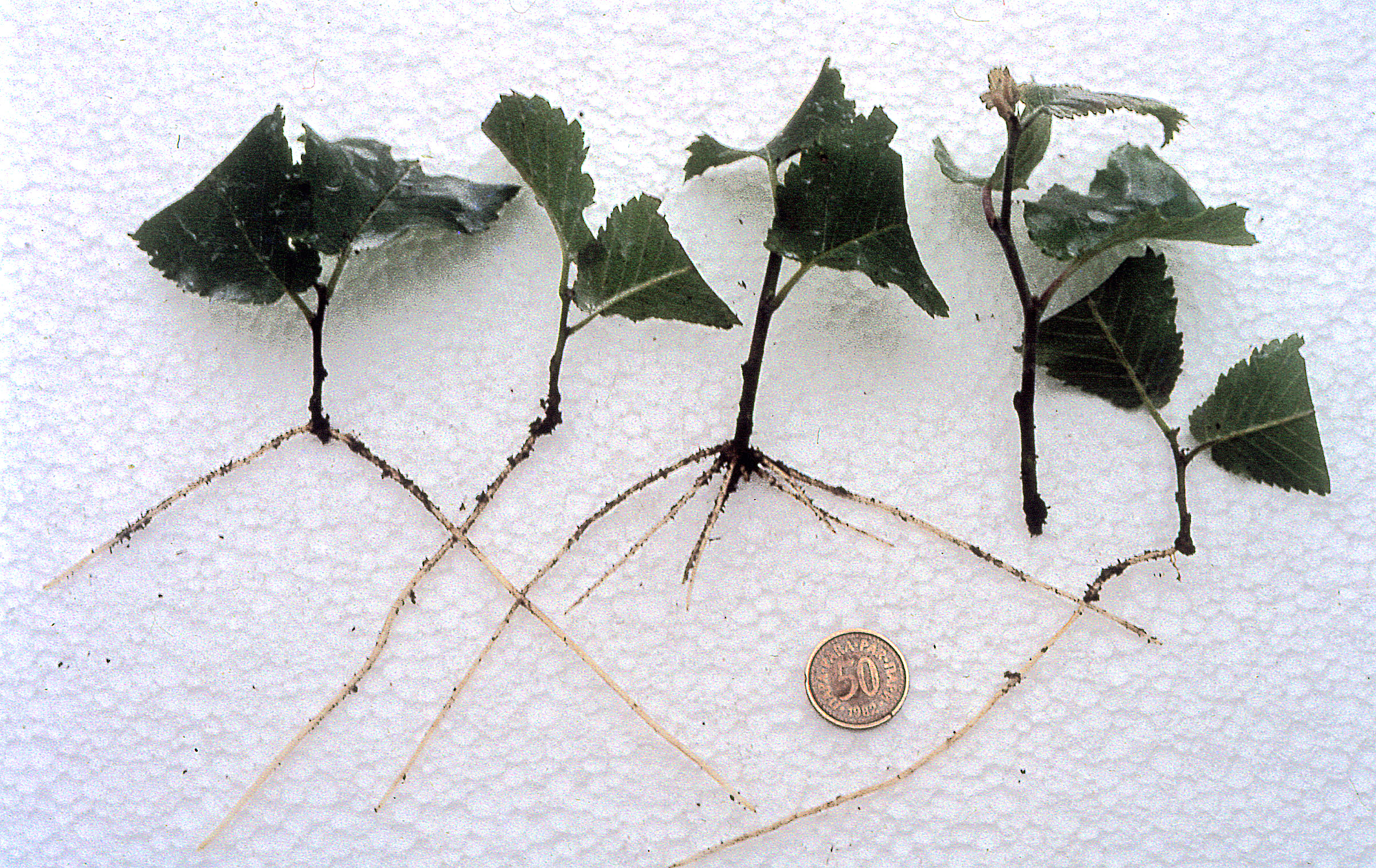 Ulmus canescens green cuttings 4 weeks after sticking